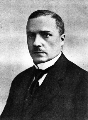 Finnish Minister of Internal Affairs Heikki Ritavuori (1880–1922), who was assassinated by Finnish-Swedish activist Ernst Tandefeld in 1922